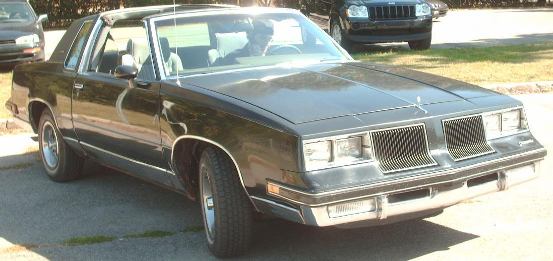 1986 Oldsmobile Cutlass Supreme photographed in Pointe Claire, Quebec, Canada.